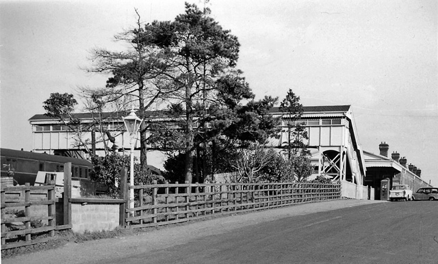 Bicester North Station entrance. View SE towards Princes Risborough and London; Paddington - Bicester - Banbury - Birmingham Main line. 'North' added to name 9/49.